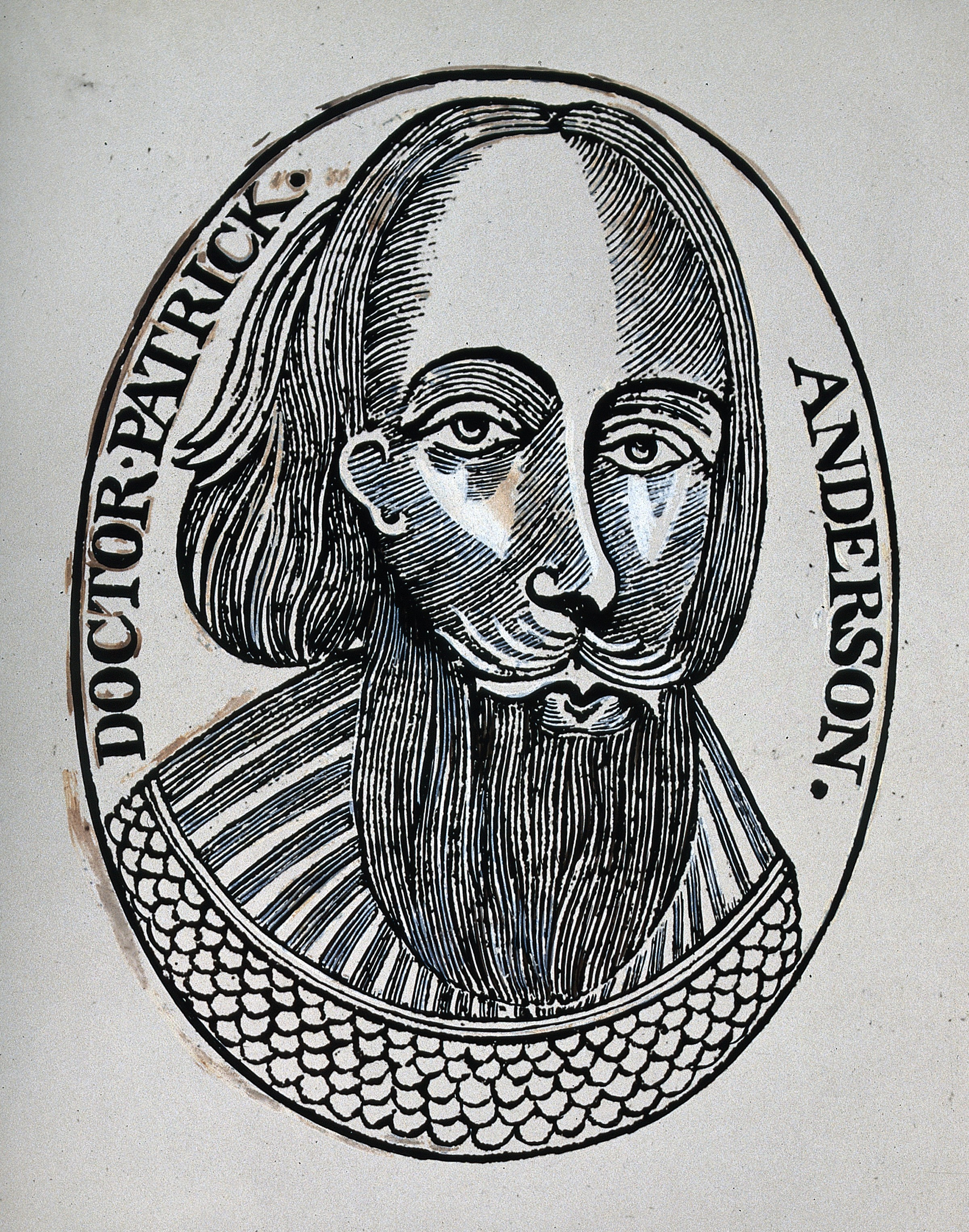 Patrick Anderson. Photograph after a woodcut. Iconographic Collections Keywords: portrait photographs